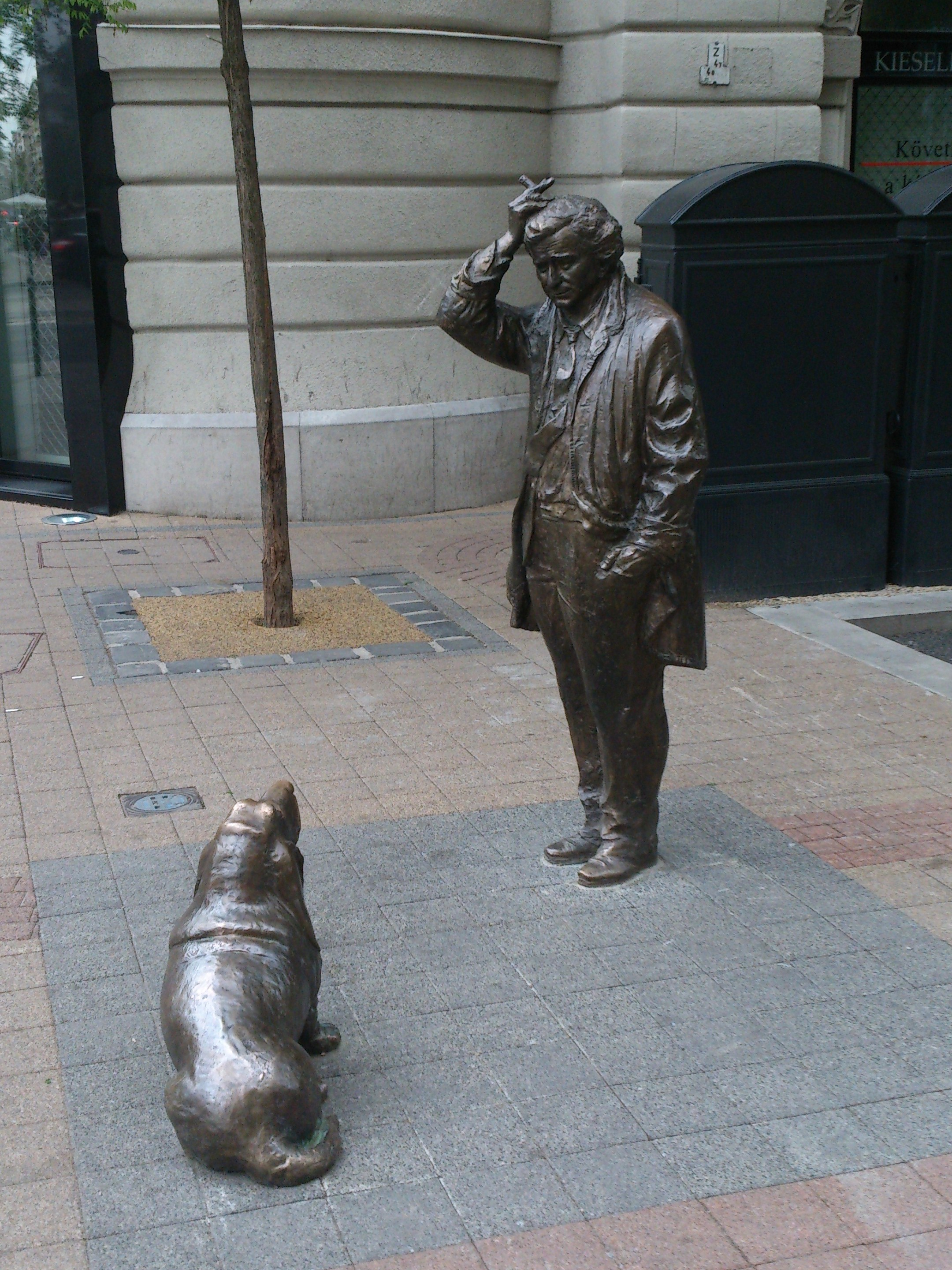 Peter Falk statue as Columbo and his „Dog“ in corner Falk Miksa Street and Szent István Boulevard, Budapest, Hungary.